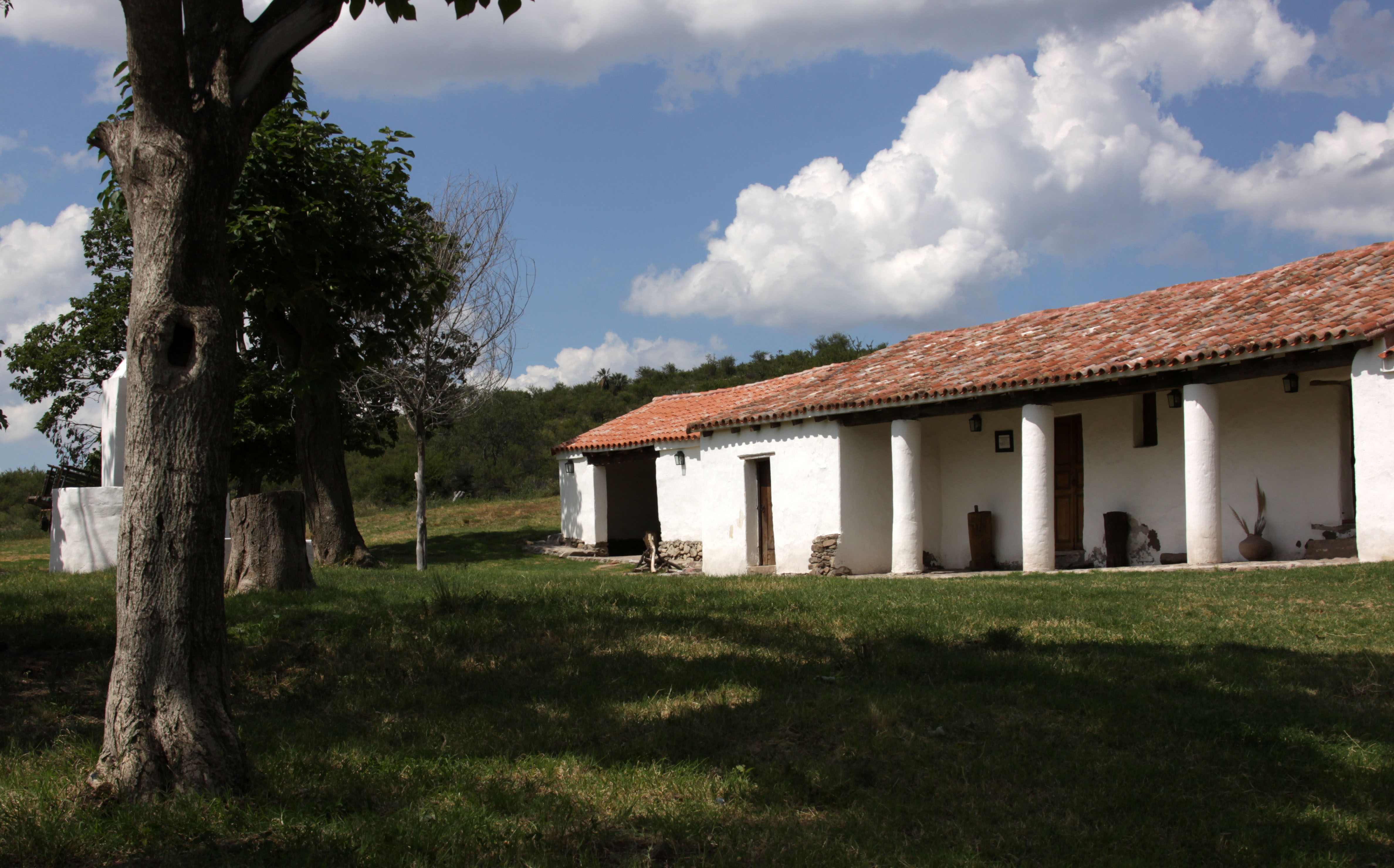 The Posta de Santa Cruz, a stop along the historic Camino Real road to Upper Peru (Bolivia) from Buenos Aires during the 18th century. Tulumba Department, Córdoba Province, Argentina.